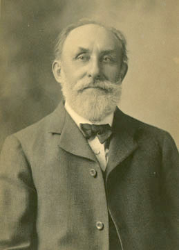 Theodore Pergande, from 1878 to 1915 curator of the U.S. National Collection of Aphididae at USDA